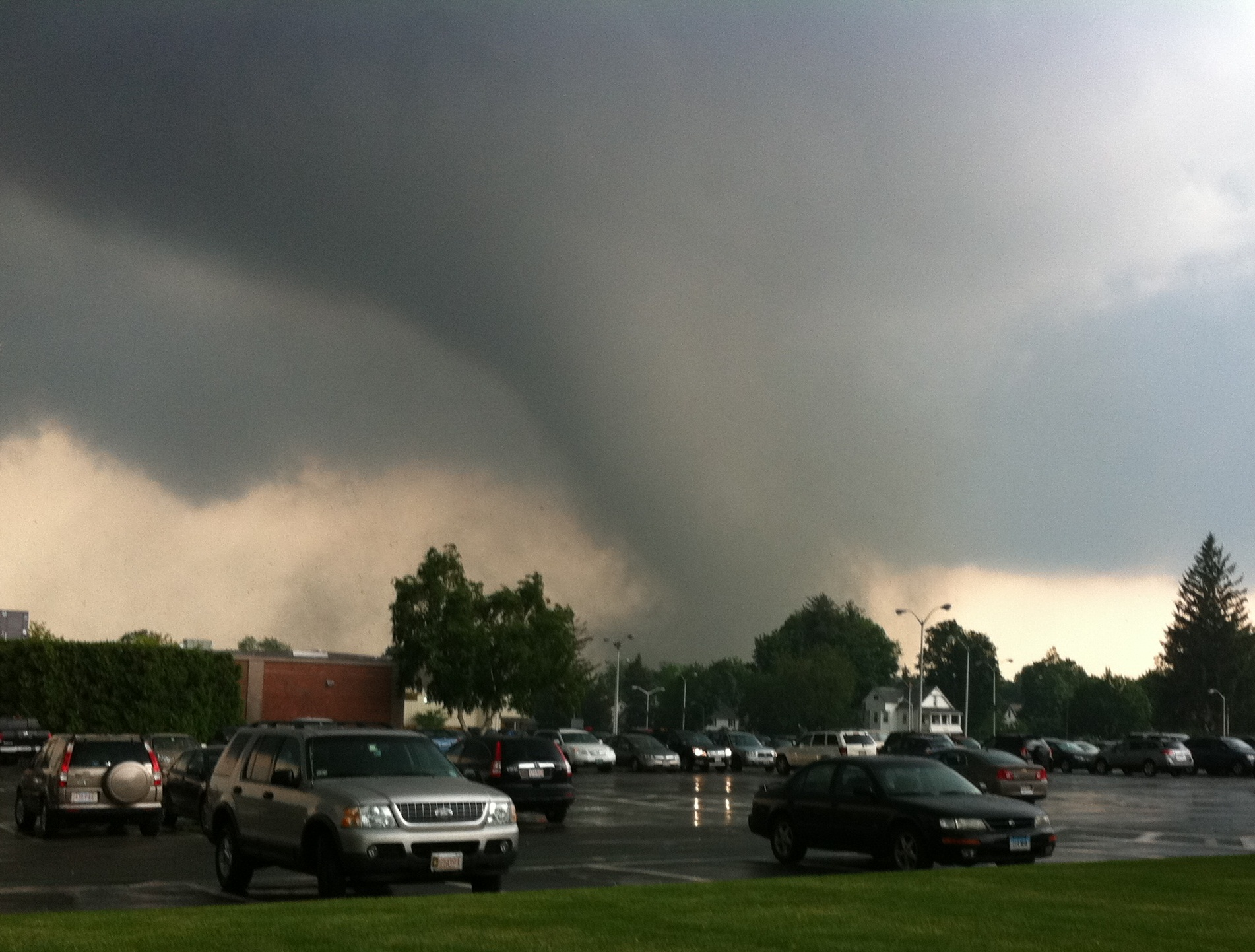 A tornado strikes Springfield, Massachusetts on June 1, 2011